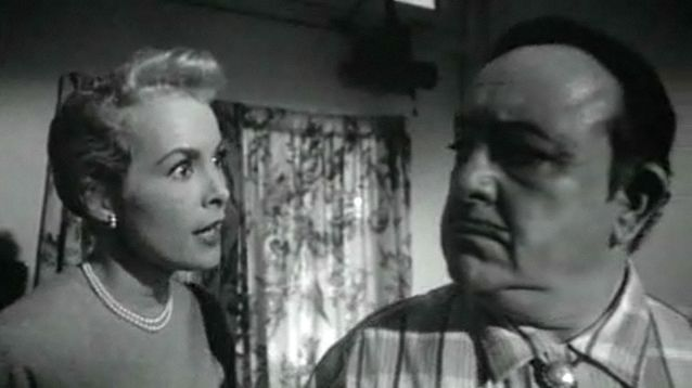 Template:EN